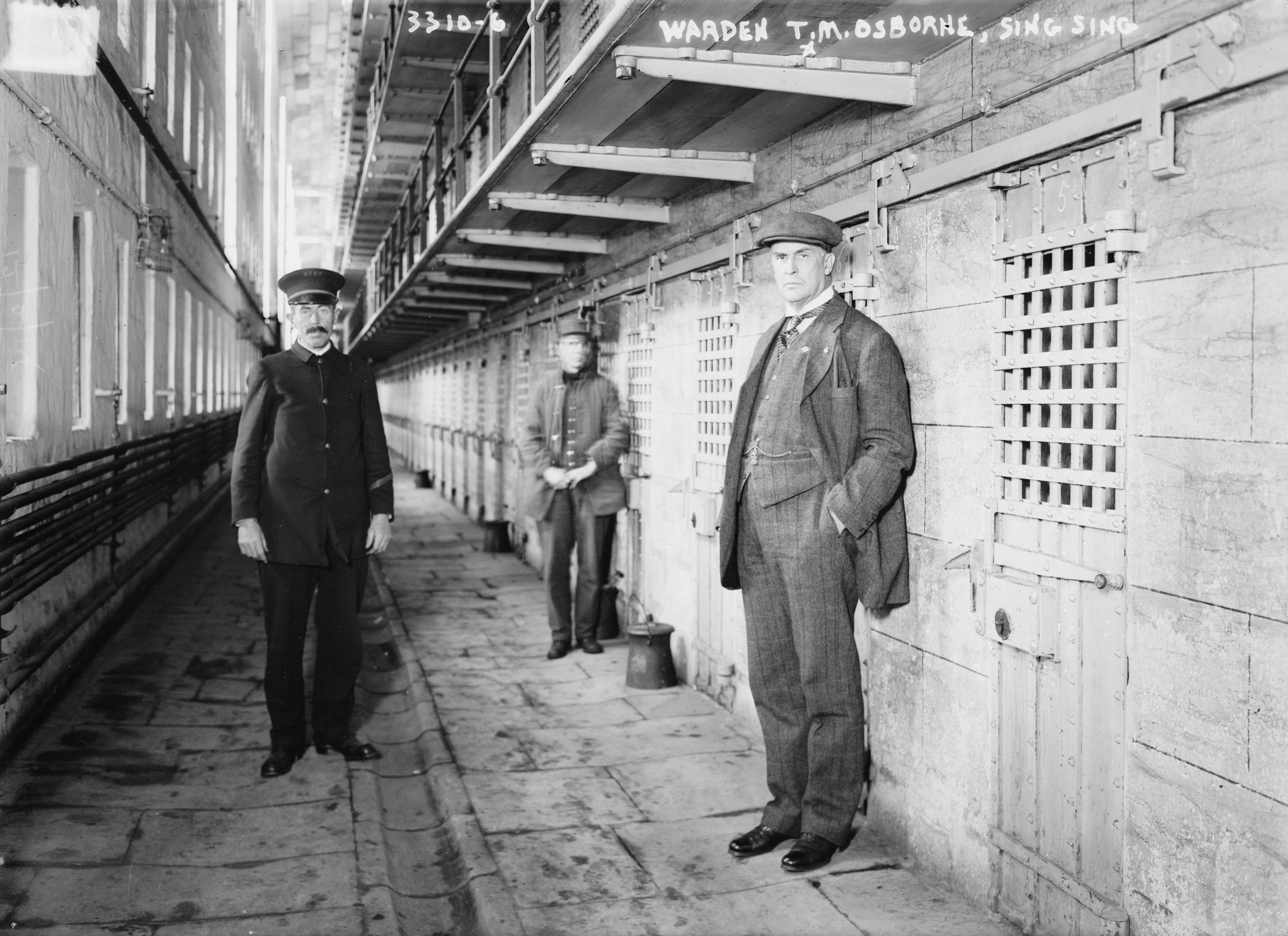 Sing Sing prison, with warden T. M. Osborne and two other men. Date unknown.